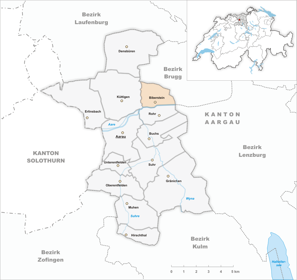 Municipality Biberstein